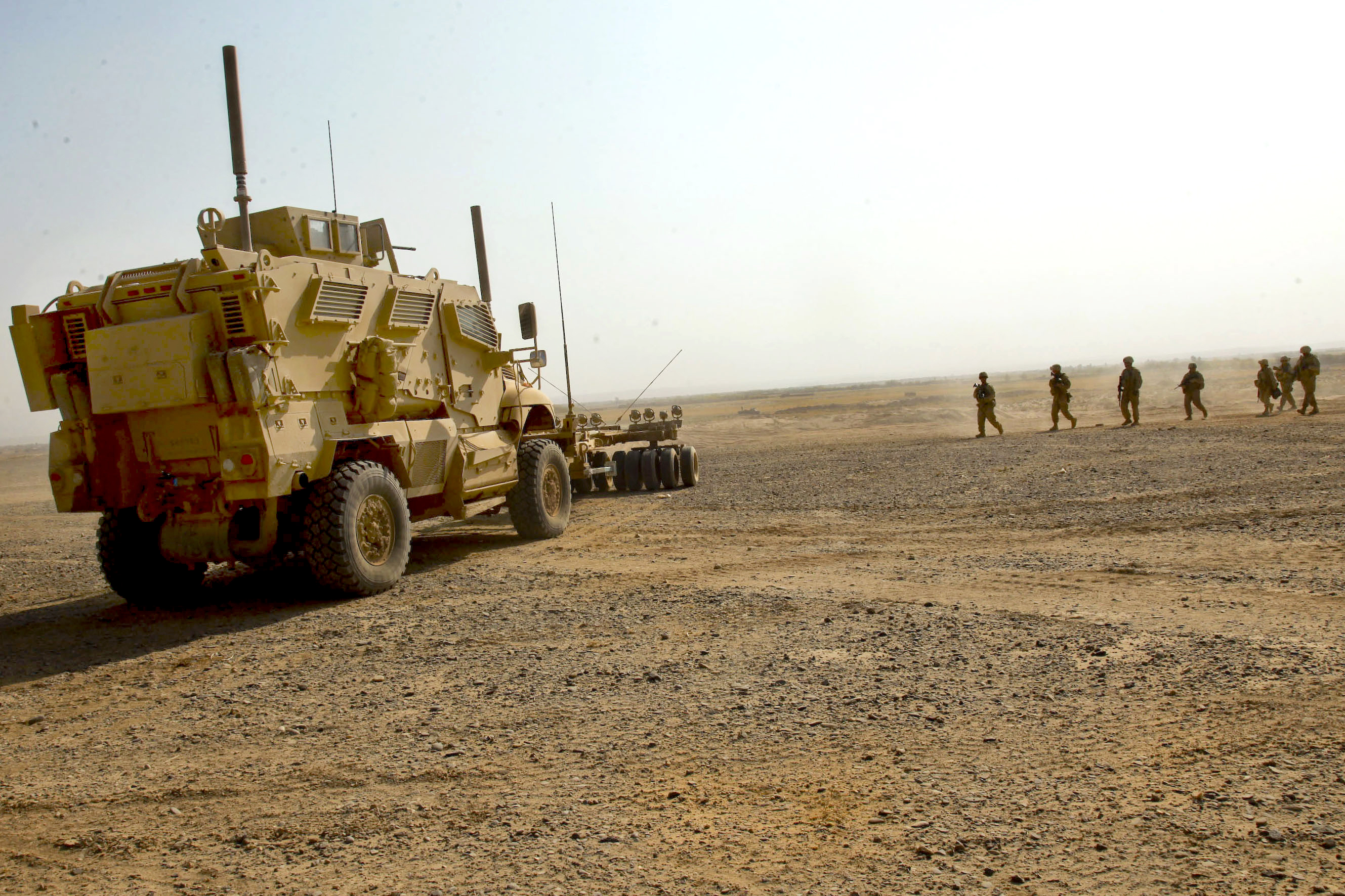 U.S. Marines survey an area for future construction projects in the Nawa district in the Helmand province, Afghanistan, Oct. 28, 2009. The Marines are assigned to the 1st Battalion, 5th Marine Regiment and Marine Combat Engineers. U.S Marine Corps photo by Cpl. Artur Shvartsberg